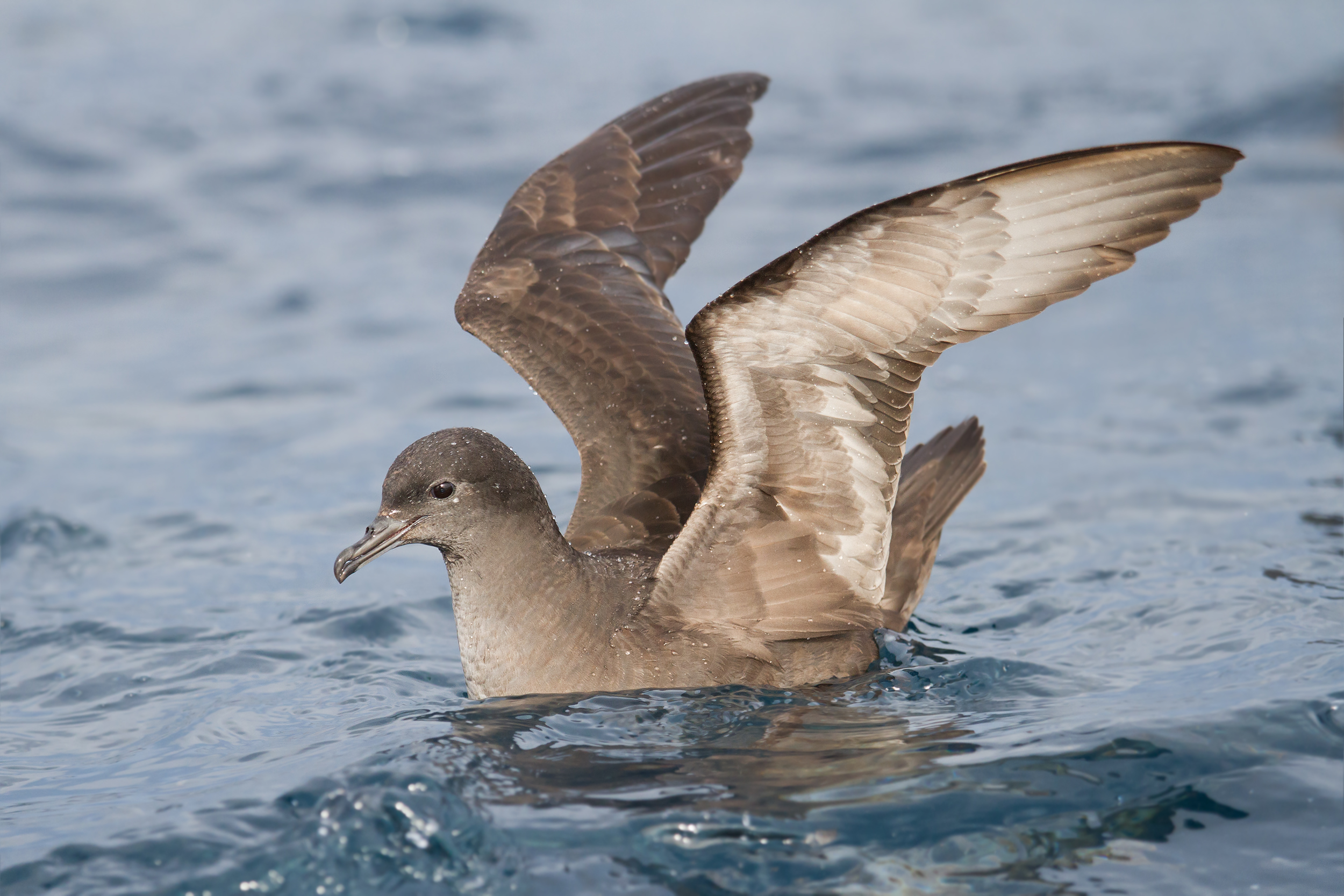 Short-tailed Shearwater (Puffinus tenuirostris), East of the Tasman Peninsula, Tasmania, Australia